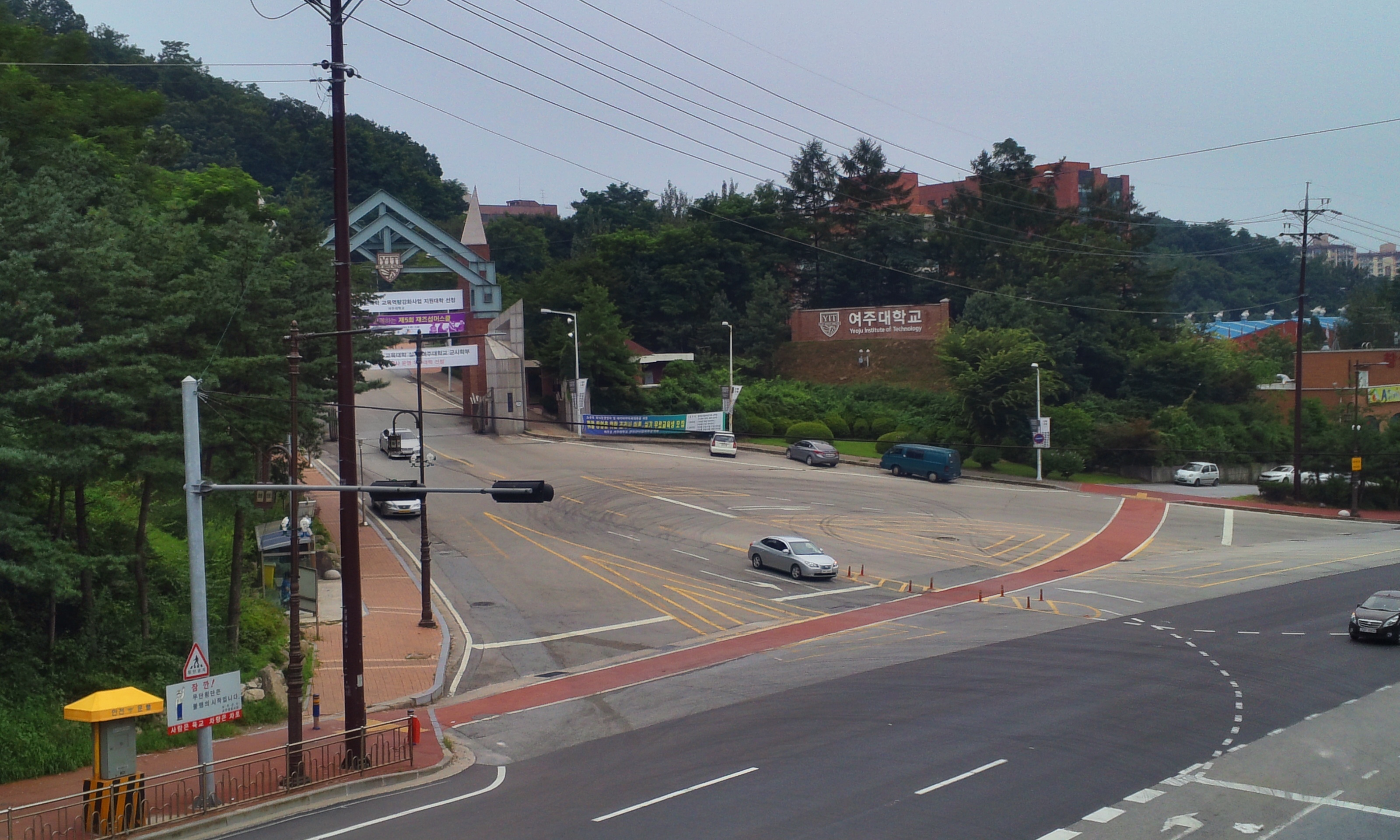 Yeoju Institute of Technology's main gate, 13-07-27